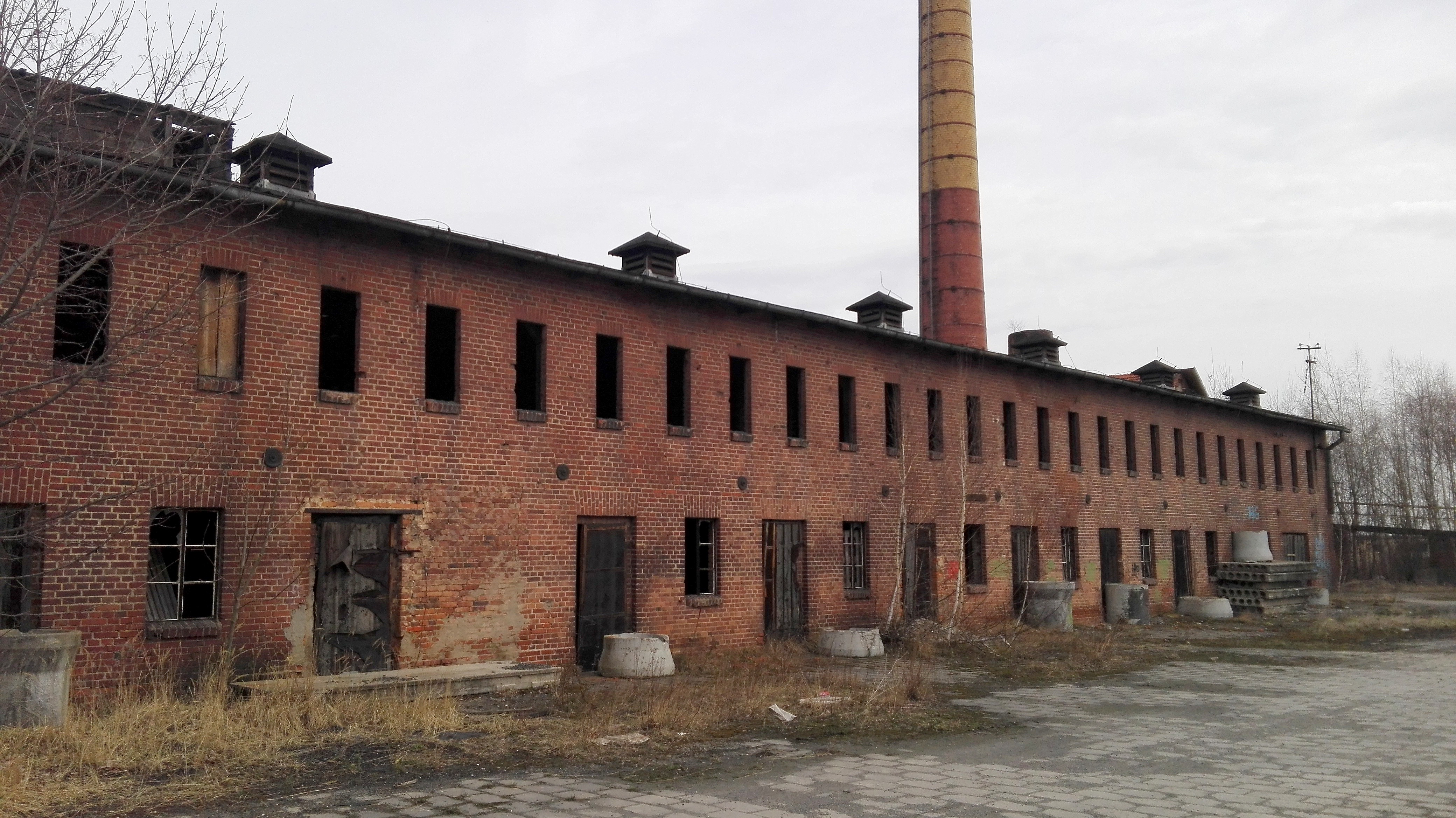 Brickyard at the Soboty Street in Prudnik